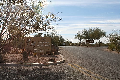 Lost Dutchman State Park — in the Superstition Mountains, central Arizona. Taken myself in lost Dutchman state park in Arizona. Dec 18, 2005 (Yasir Mirza).